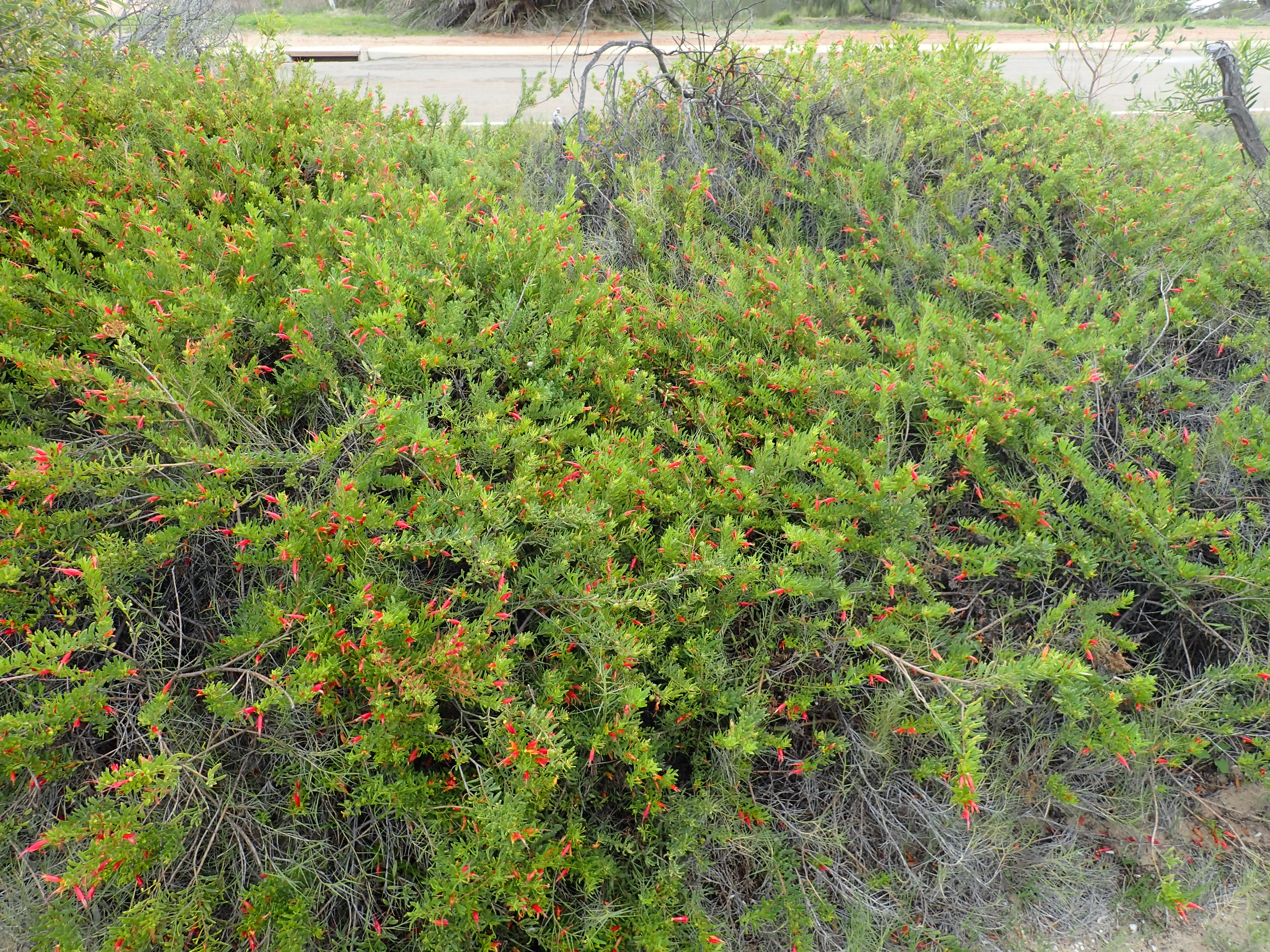 Eremophila glabra carnosa growing in Port Gregory